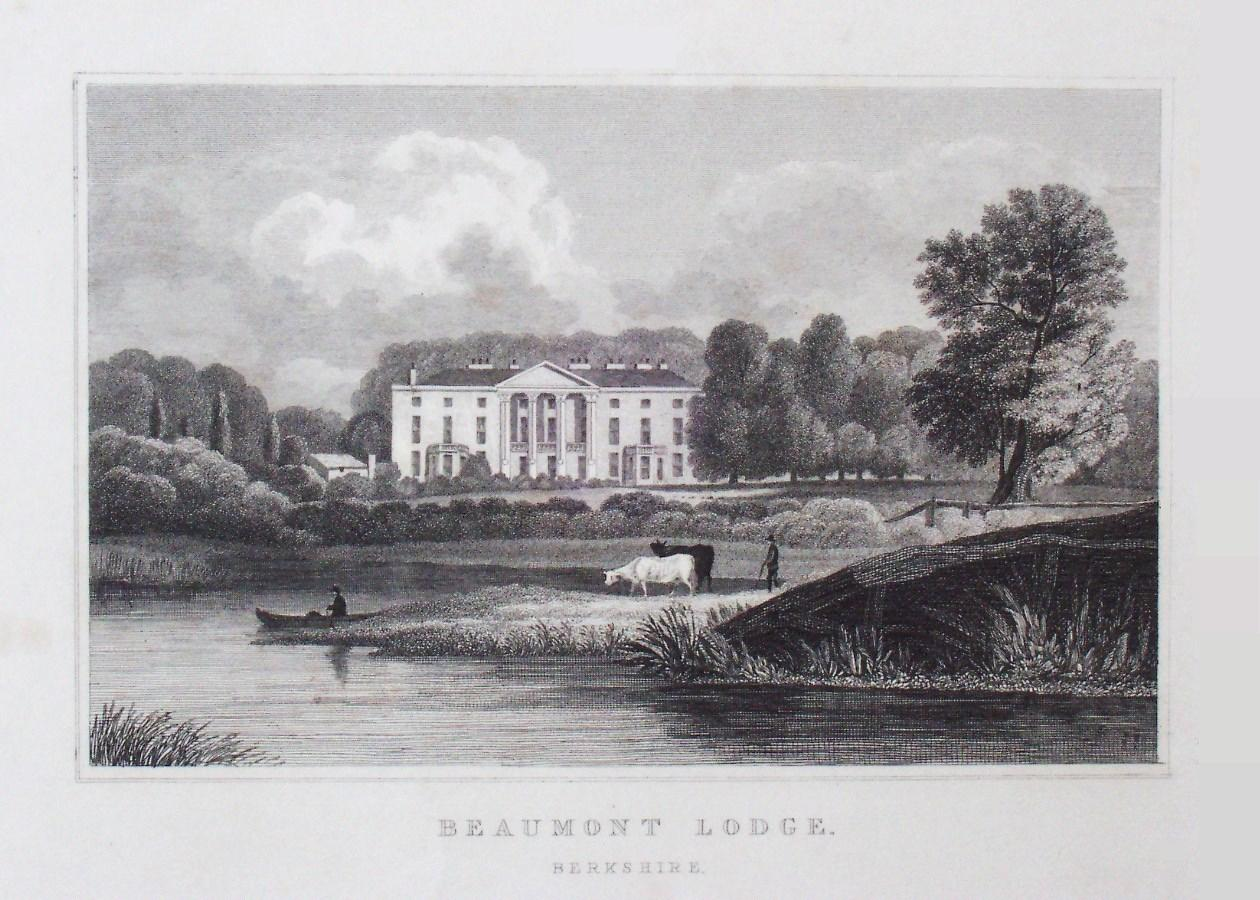 Engraving of Beaumont College, Old Windsor, Berkshire, by John Preston Neale (circa 1830)